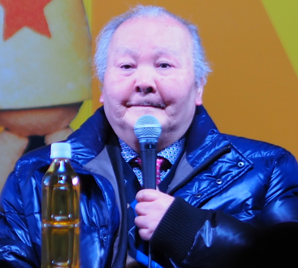 Professional shogi player 加藤一二三 Hifumi Katō in 2018.